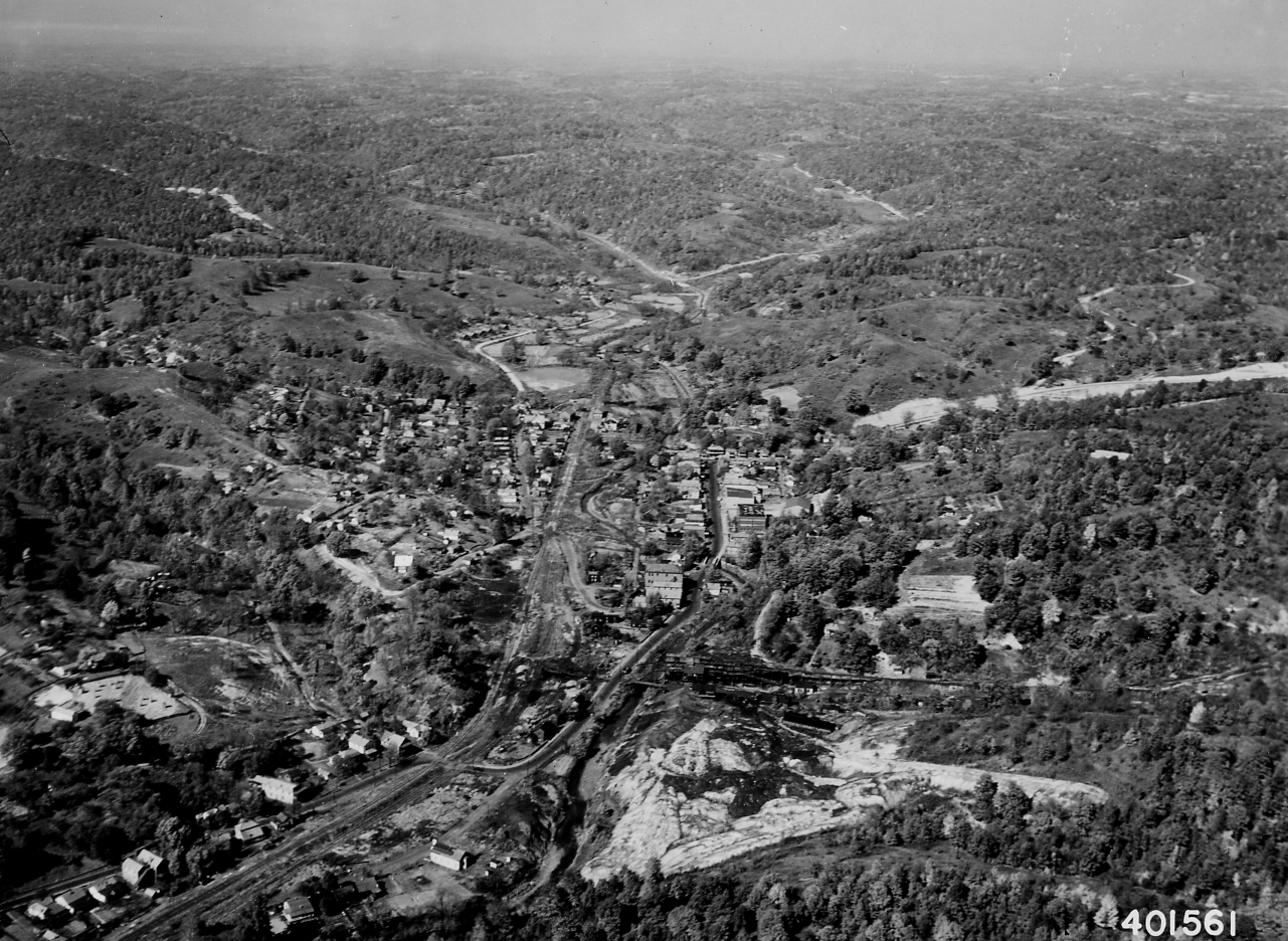 Scope and content: Original caption: Aerial view of Murry City, Ohio, coal mining town. Note the "gob pile" from coal mining & mine tipple in the center foreground. Athens R.D.